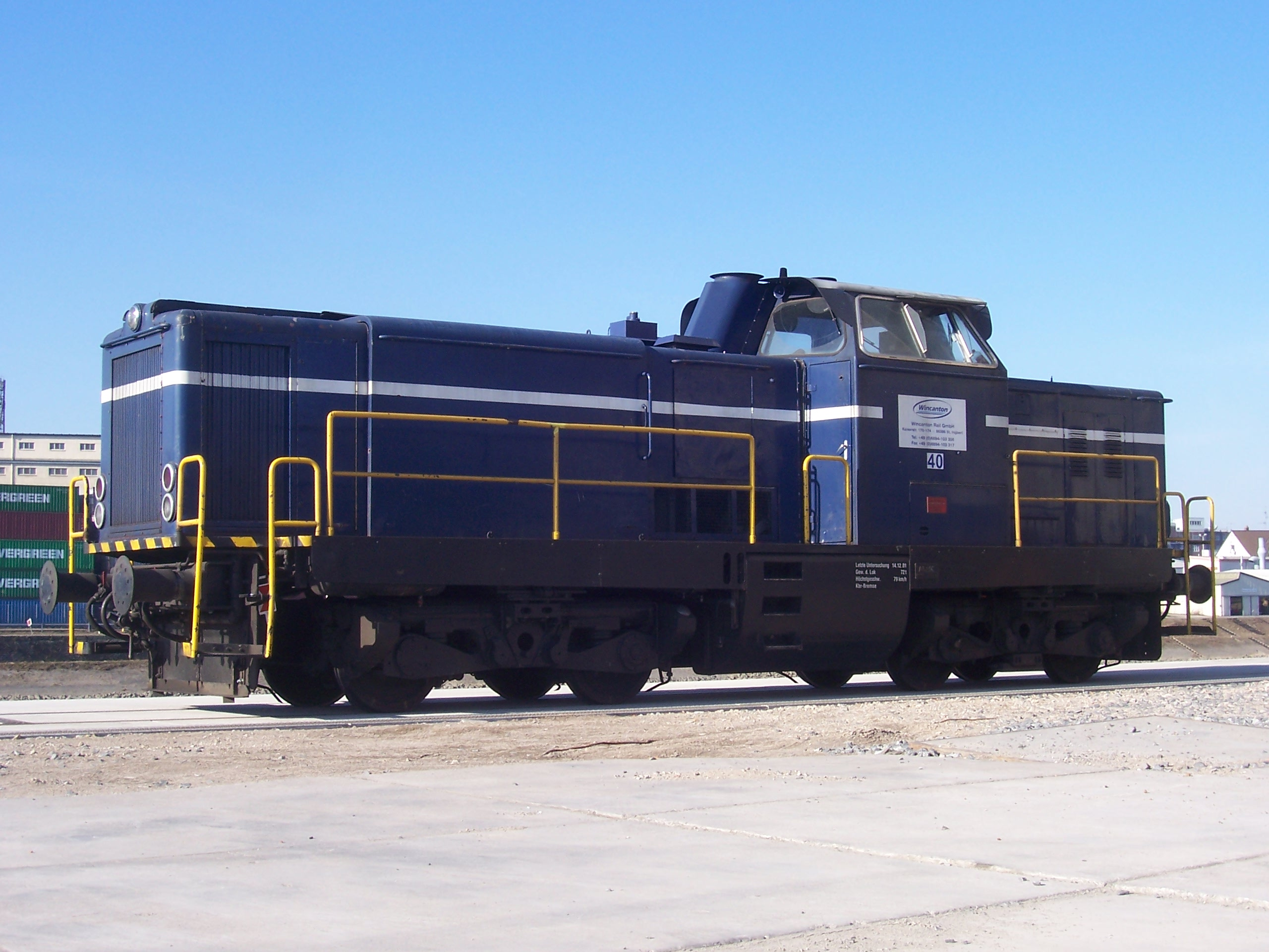 A MaK V 100 PA / G 1300 BB running as engine number 40 for Rhenus Rail St. Ingbert GmbH in Mannheim